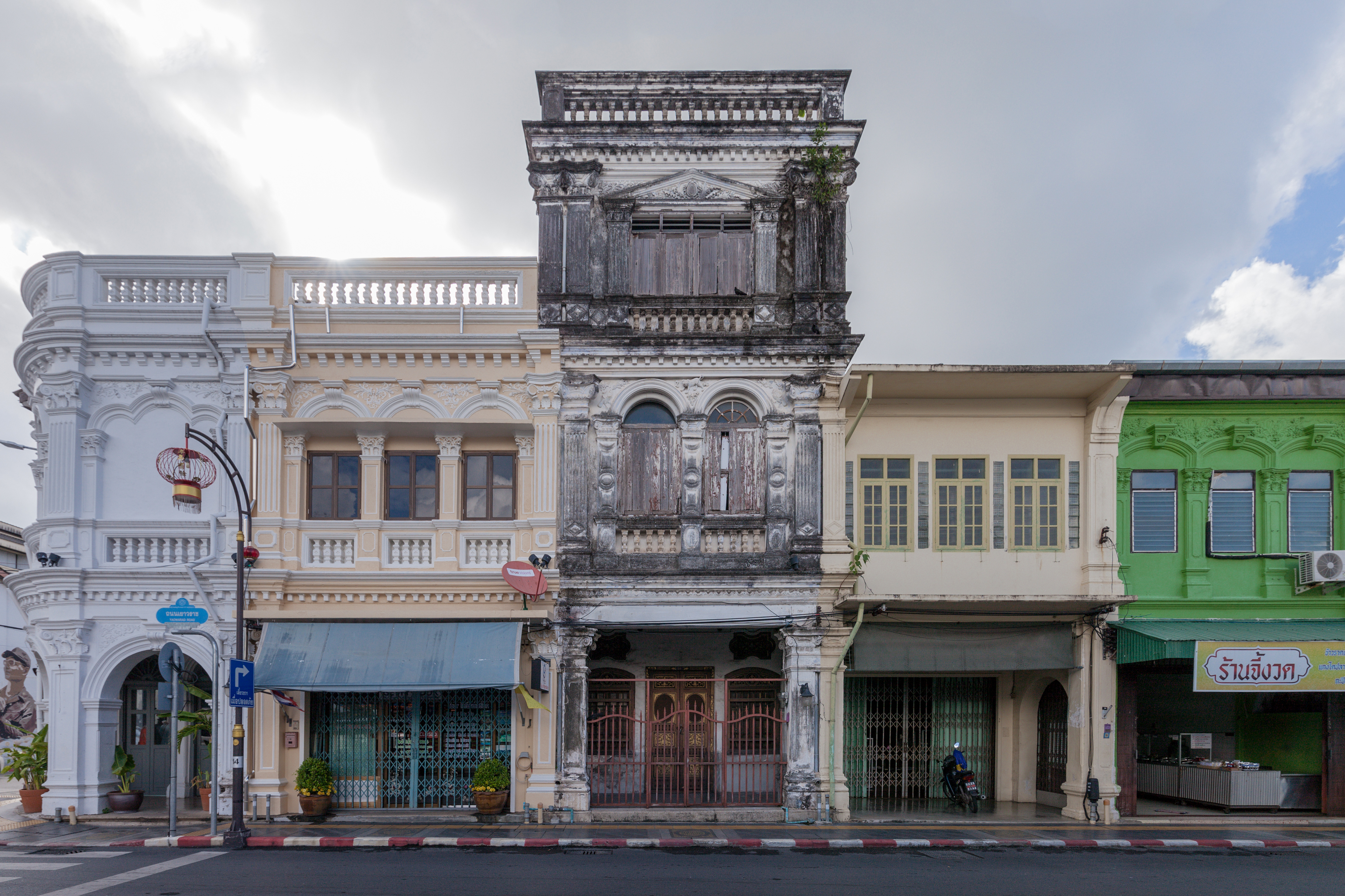 Sino-Portugese Buildings in Phuket Town, Thailand.